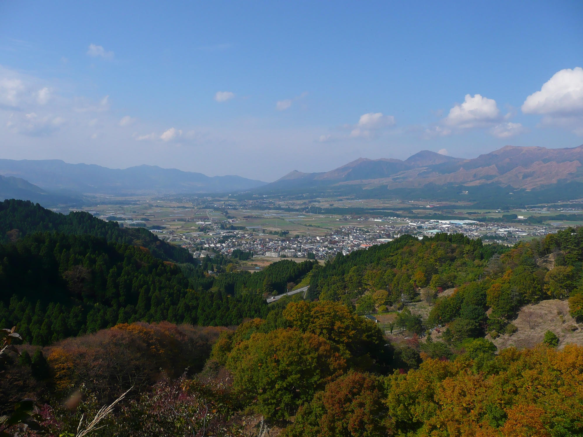 Nango-dani Valley (Aso Caldera - Kumamoto Prefecture, Japan)